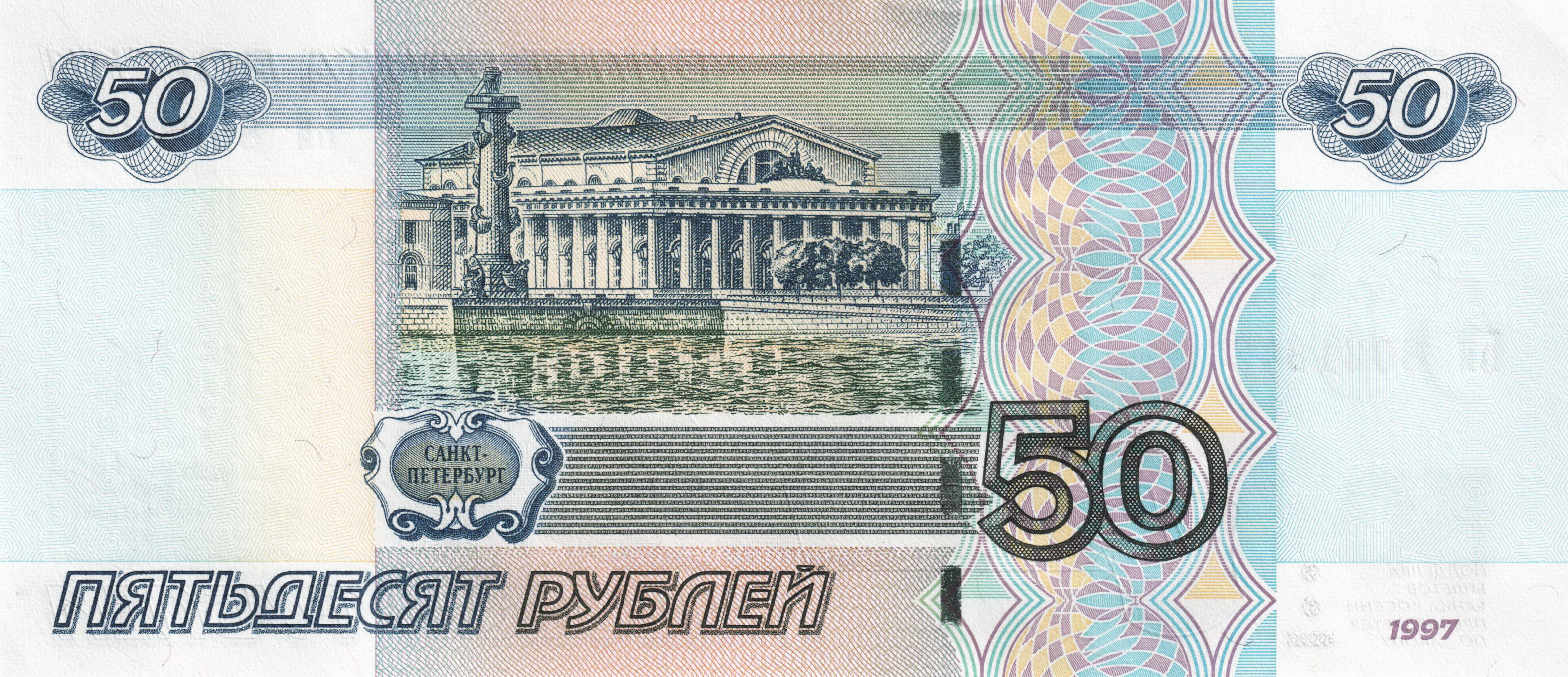 Russian banknote. 500 rubles. Version of 1997 year, 2004 mod. Back